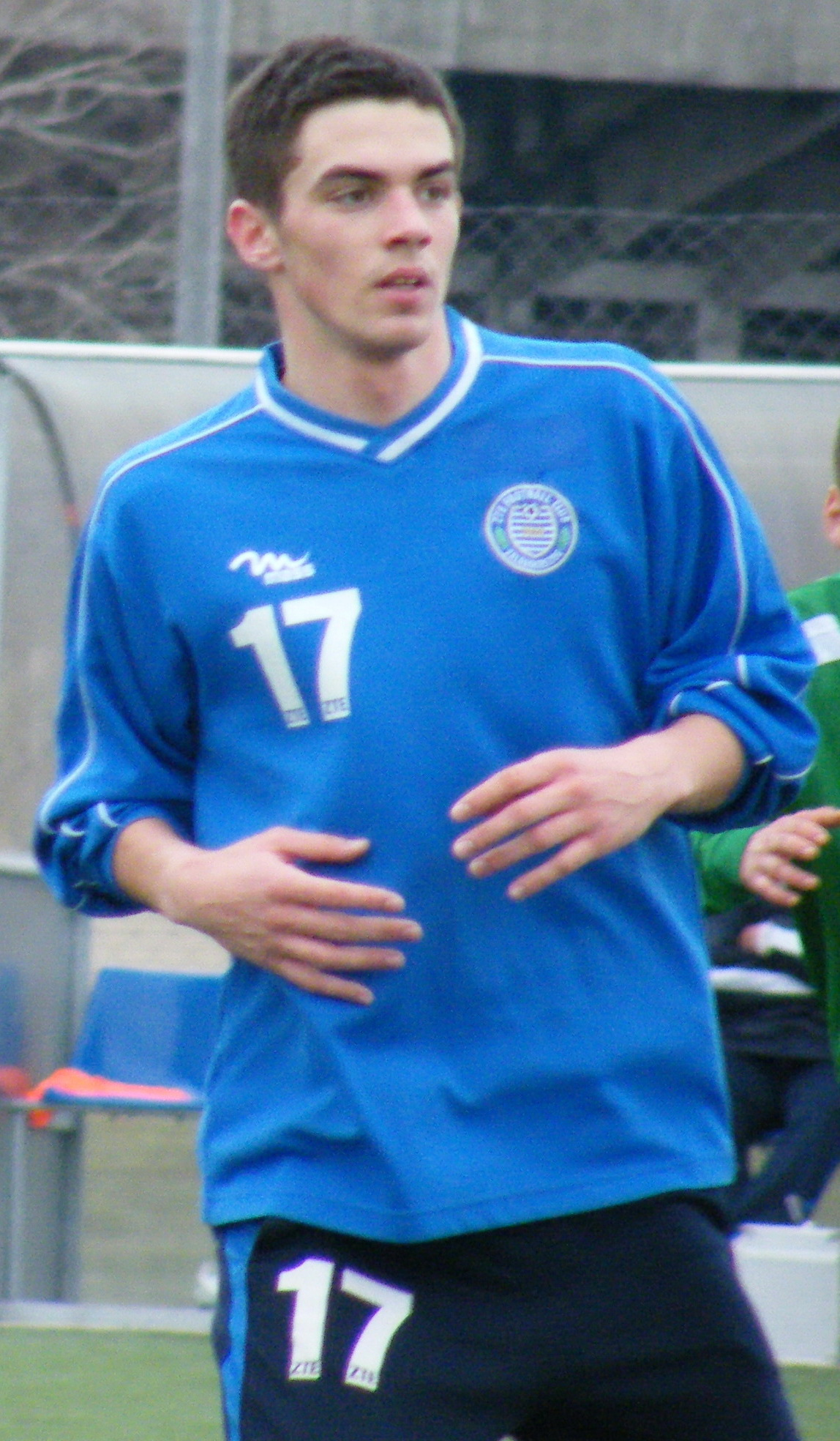 Zsolt Balázs Hungarian association football player.